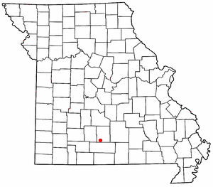 County map of the state of Missouri, with a dot on Mansfield, MO